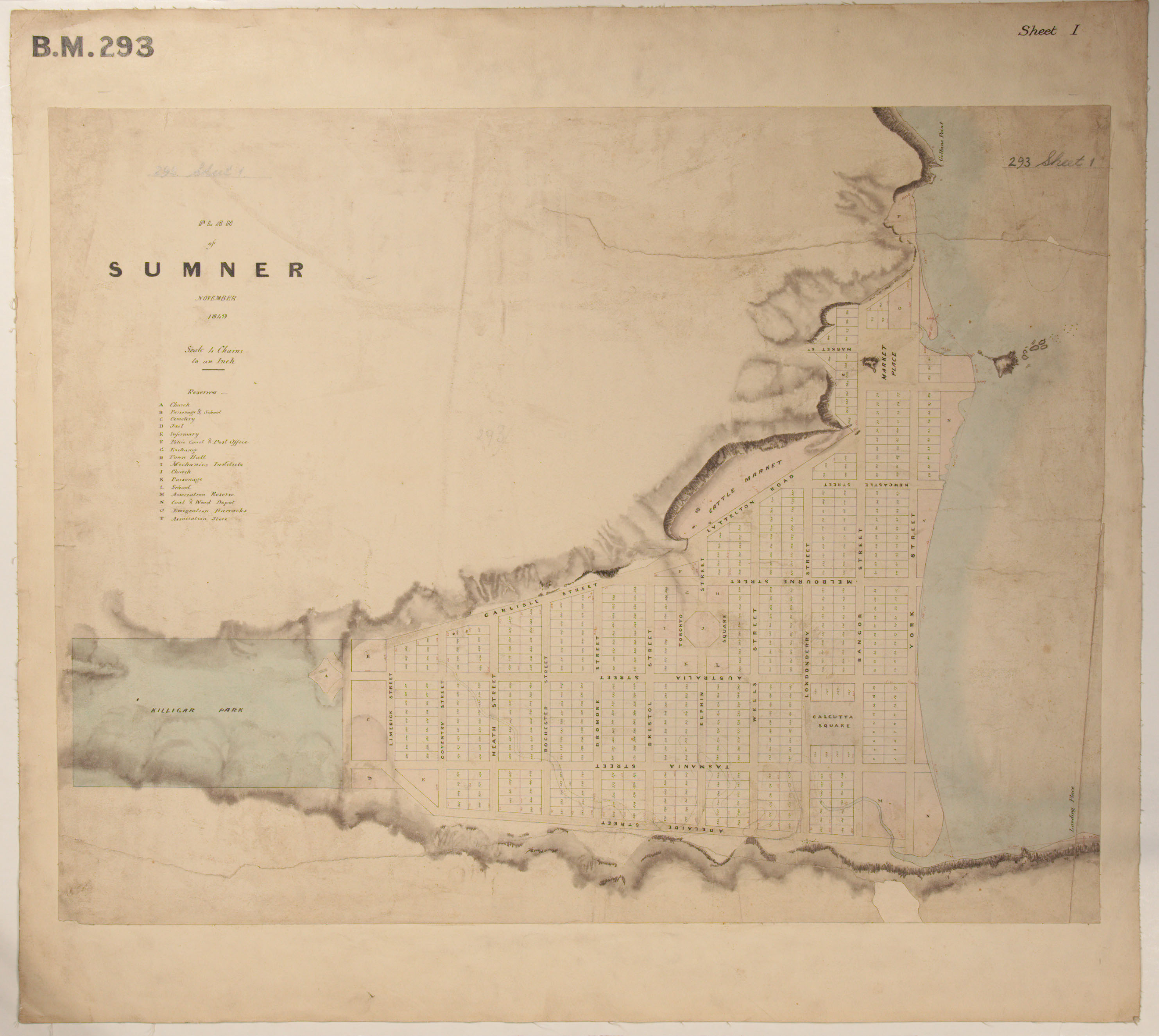 Black map of Sumner by Edward Jollie for Joseph Thomas; sheet 1.